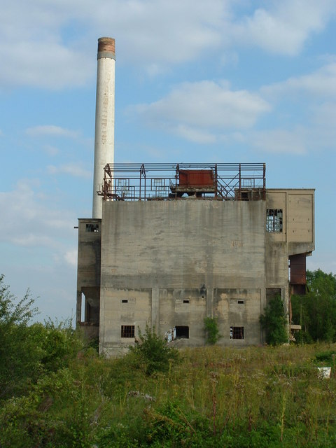 Shipton-on-Cherwell cement works, Shipton-on-Cherwell, Oxfordshire, with chimney "Smokey Joe".